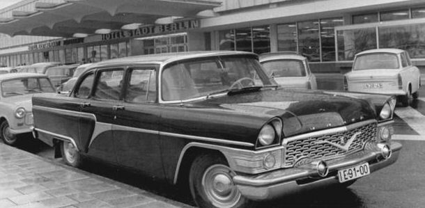 GAZ-13 Chaika in Berlin